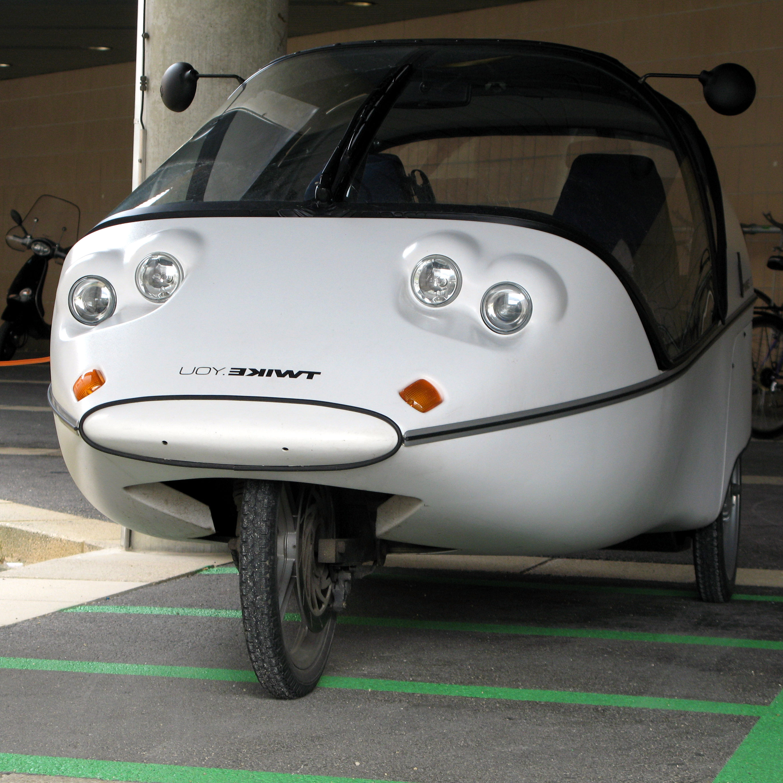 Twike